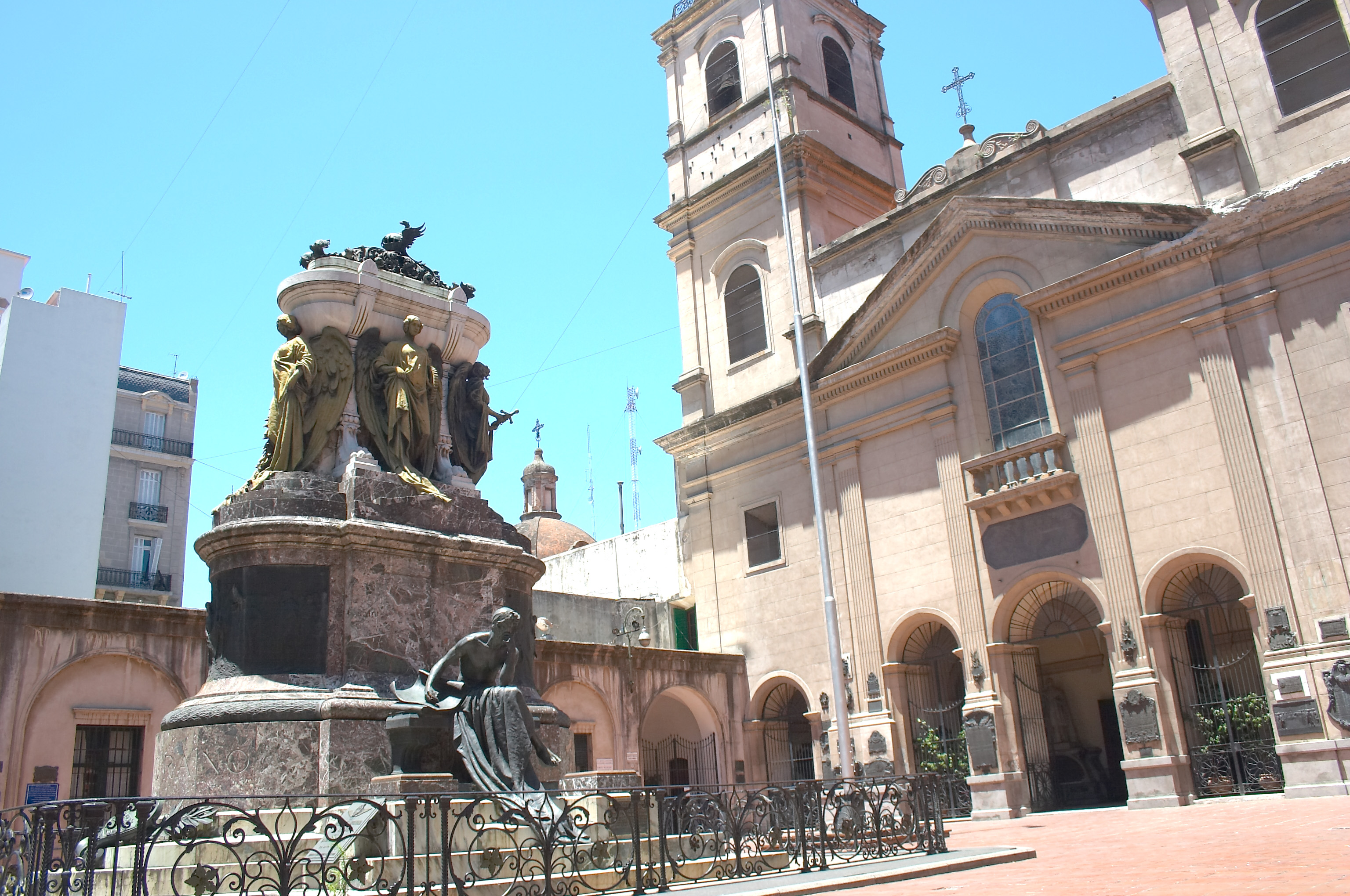 Manuel Belgrano's mausoleum, Buenos Aires, Argentina.